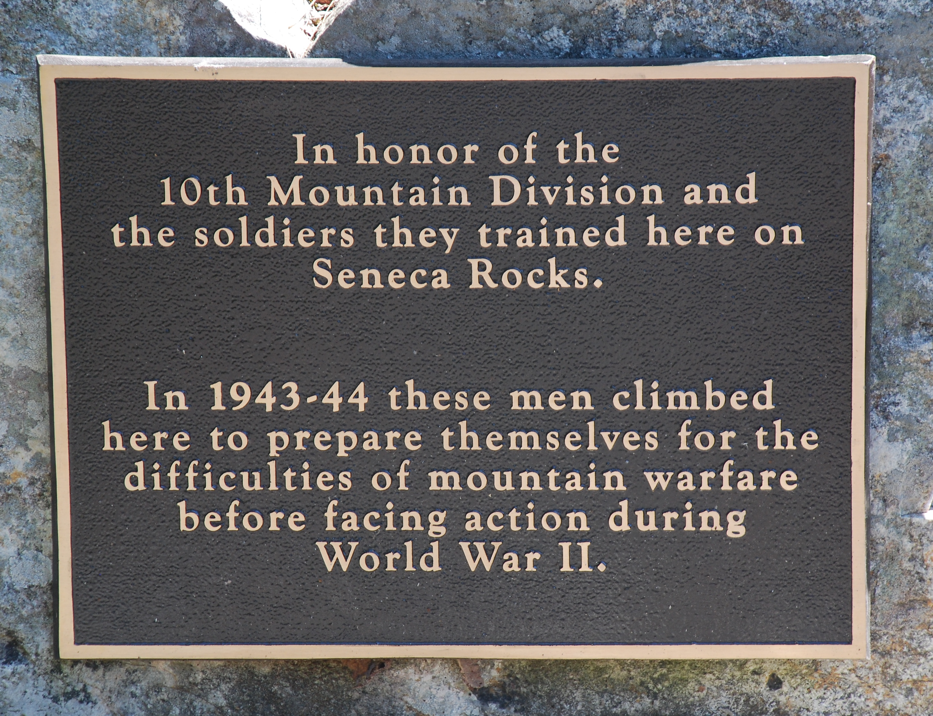 Plaque in honor of 10 th Mountain division at Seneca Rocks in Monongahela National Forest, West Virginia, USA. Text: " In Honor of the 10th Mountain Division and the soldiers they trained here on Senaca Rocks. In 1943-44 those men climbed here to prepare themselves for the dificulties of the mountain warfare before facing action during World War II."